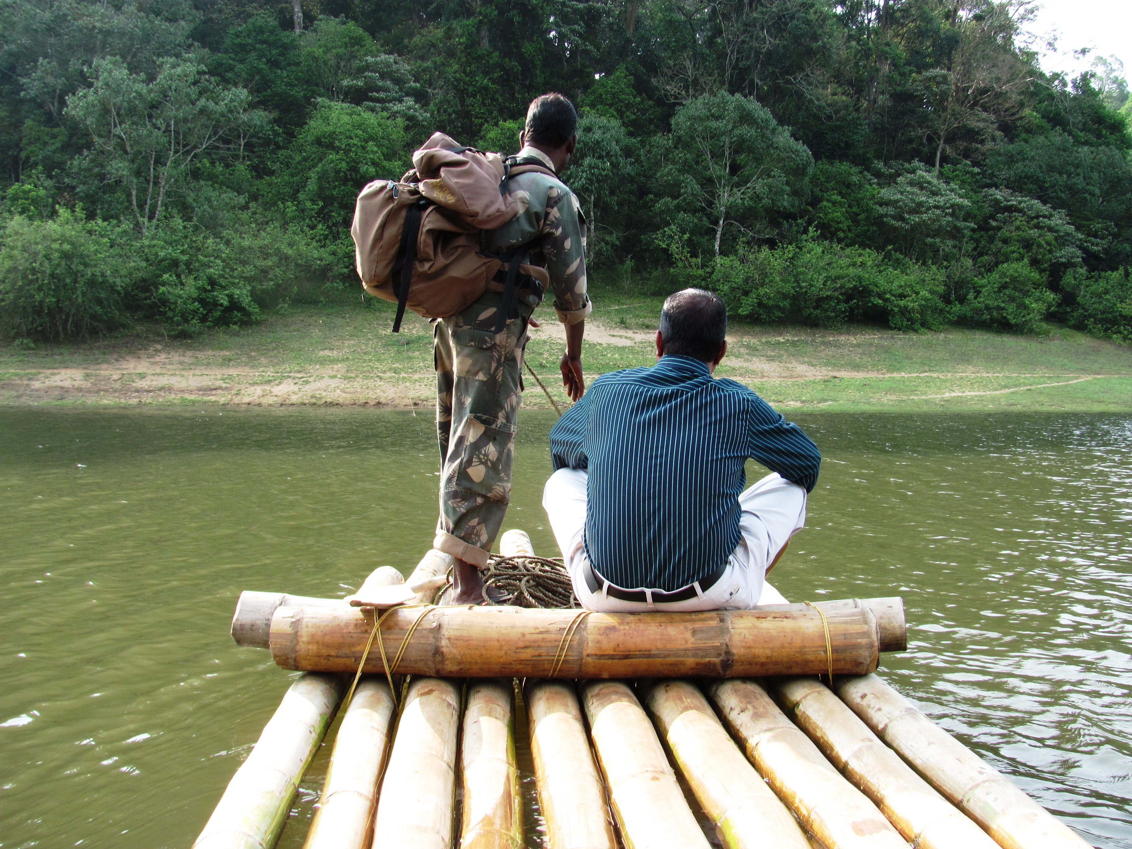 Bamboo rafting